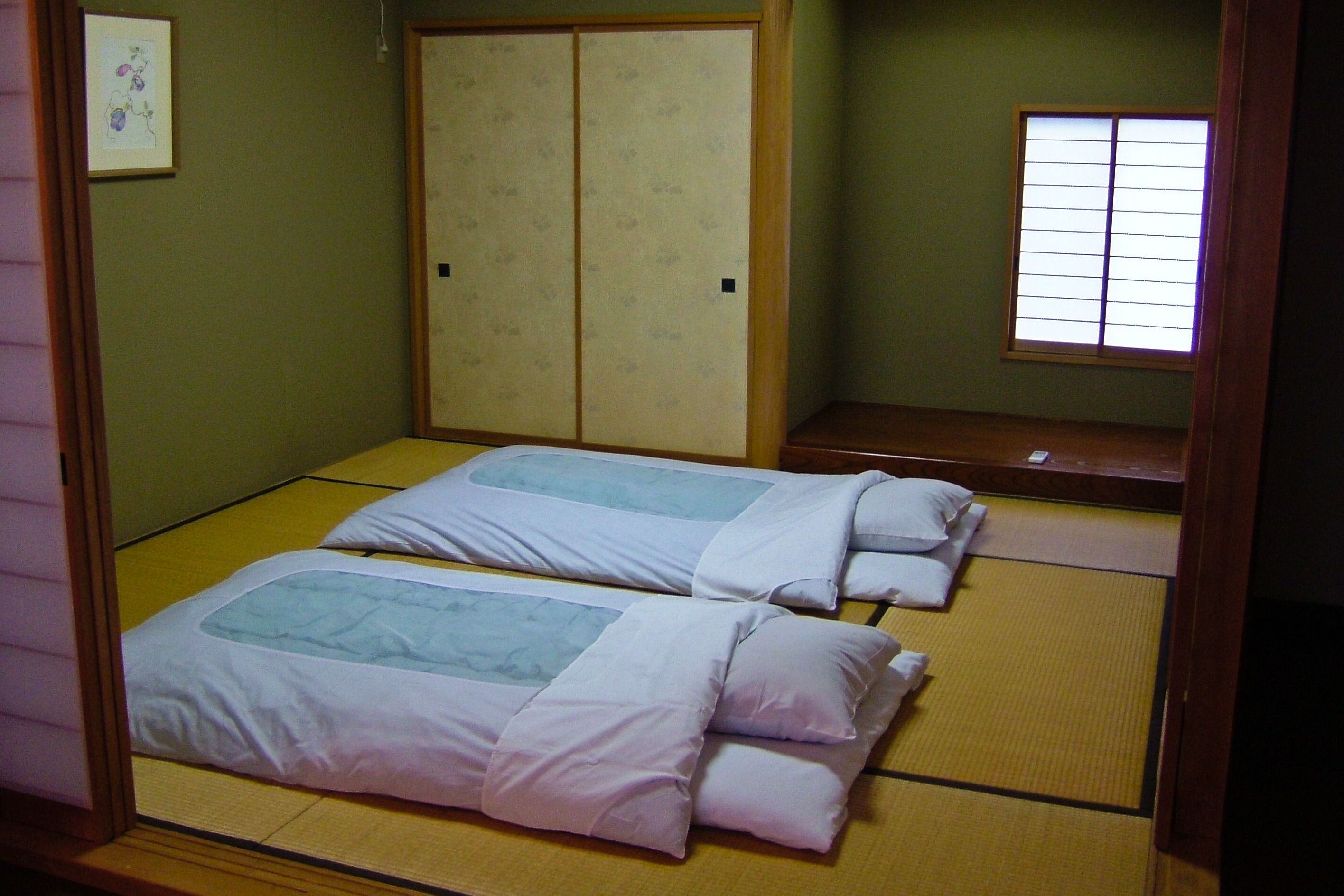 Nirayama City, Shizuoka Prefecture, Japan